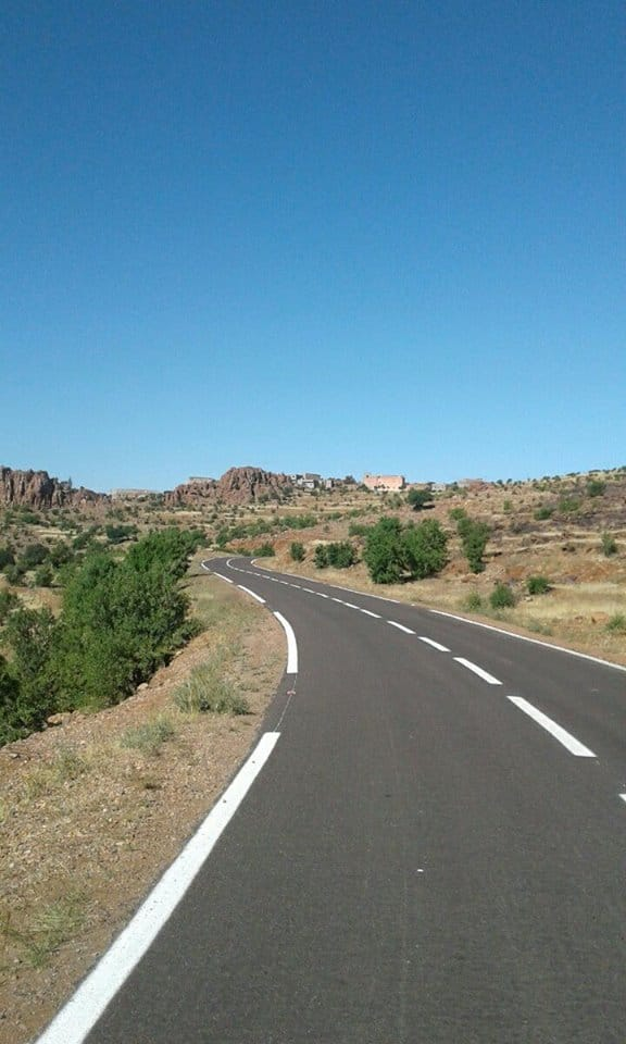 Route Régionale 106